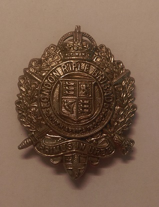 Photo of London Rifle Brigade Cap Badge from personal collection